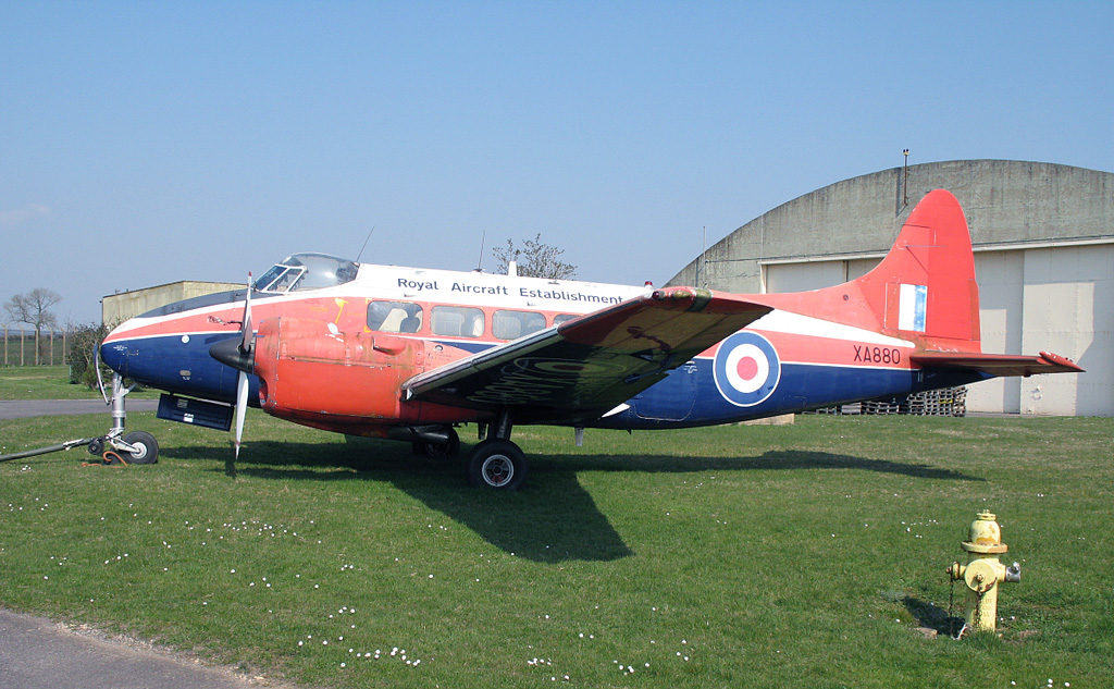 The de Havilland Devon XA880 of the Royal Aircraft Establishment as photographed at RAF Kemble in April 2007 by Brian.Burnell.